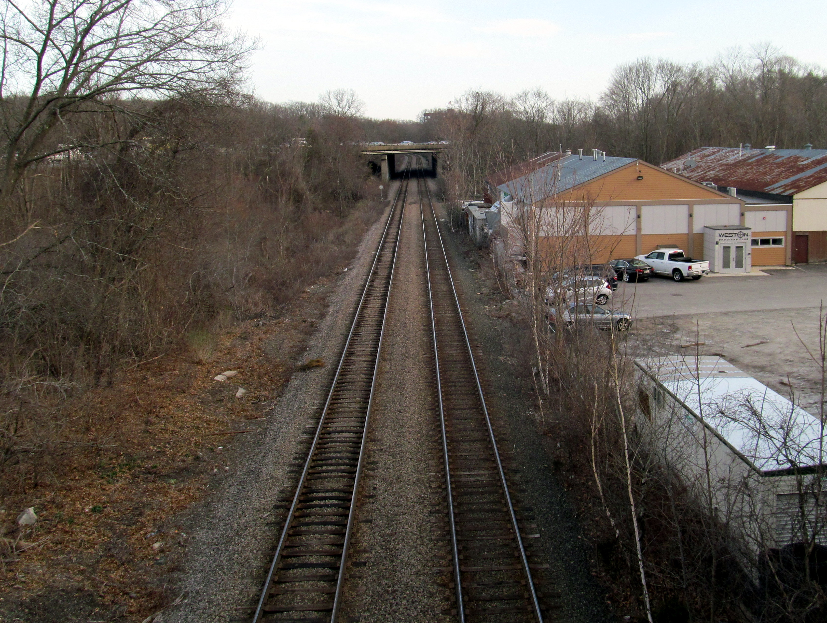 Location of the former Stony Brook station (about where the cars are parked at right) photographed in April 2017